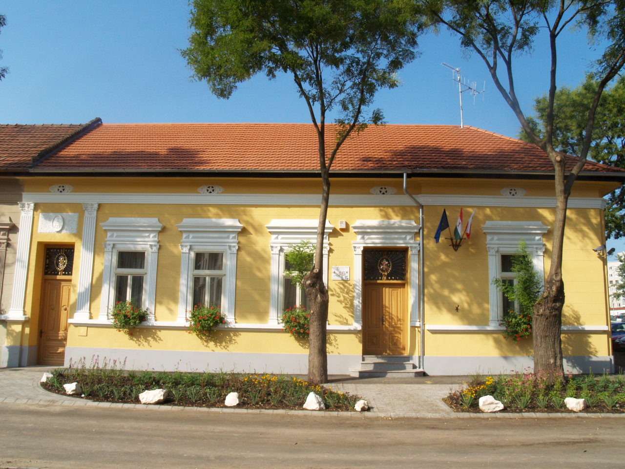 The Wojtyla House